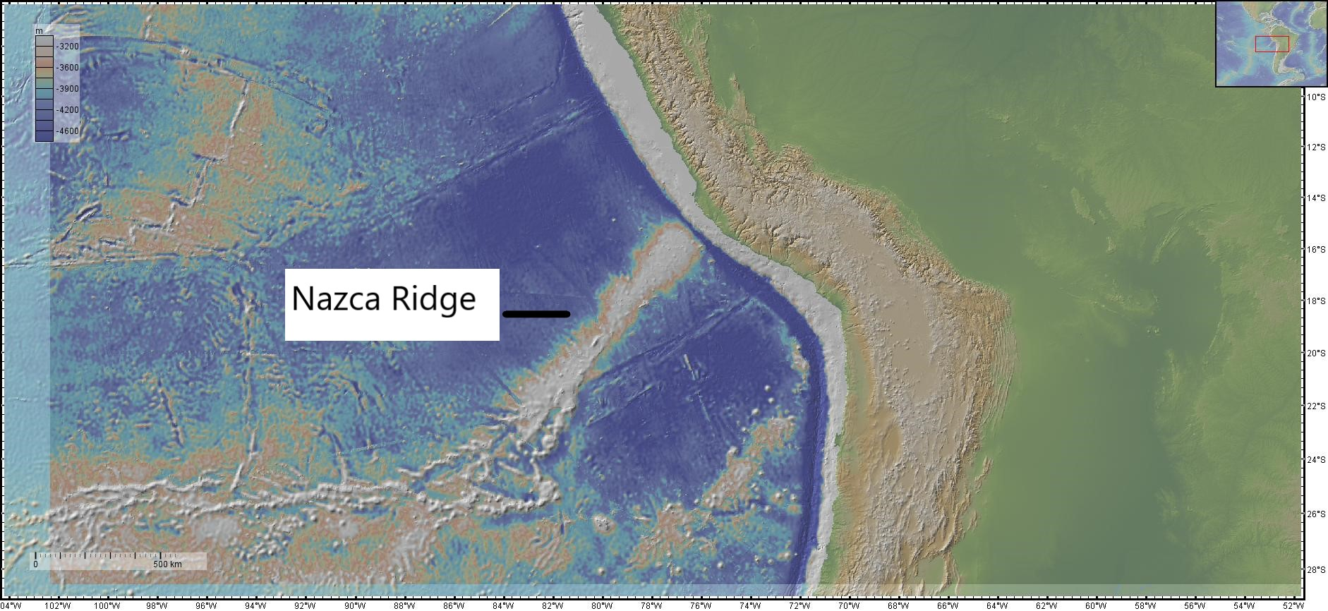 Map showing the location of Nazca Ridge in relation to the coast of South America. Image produced using GeoMapApp.